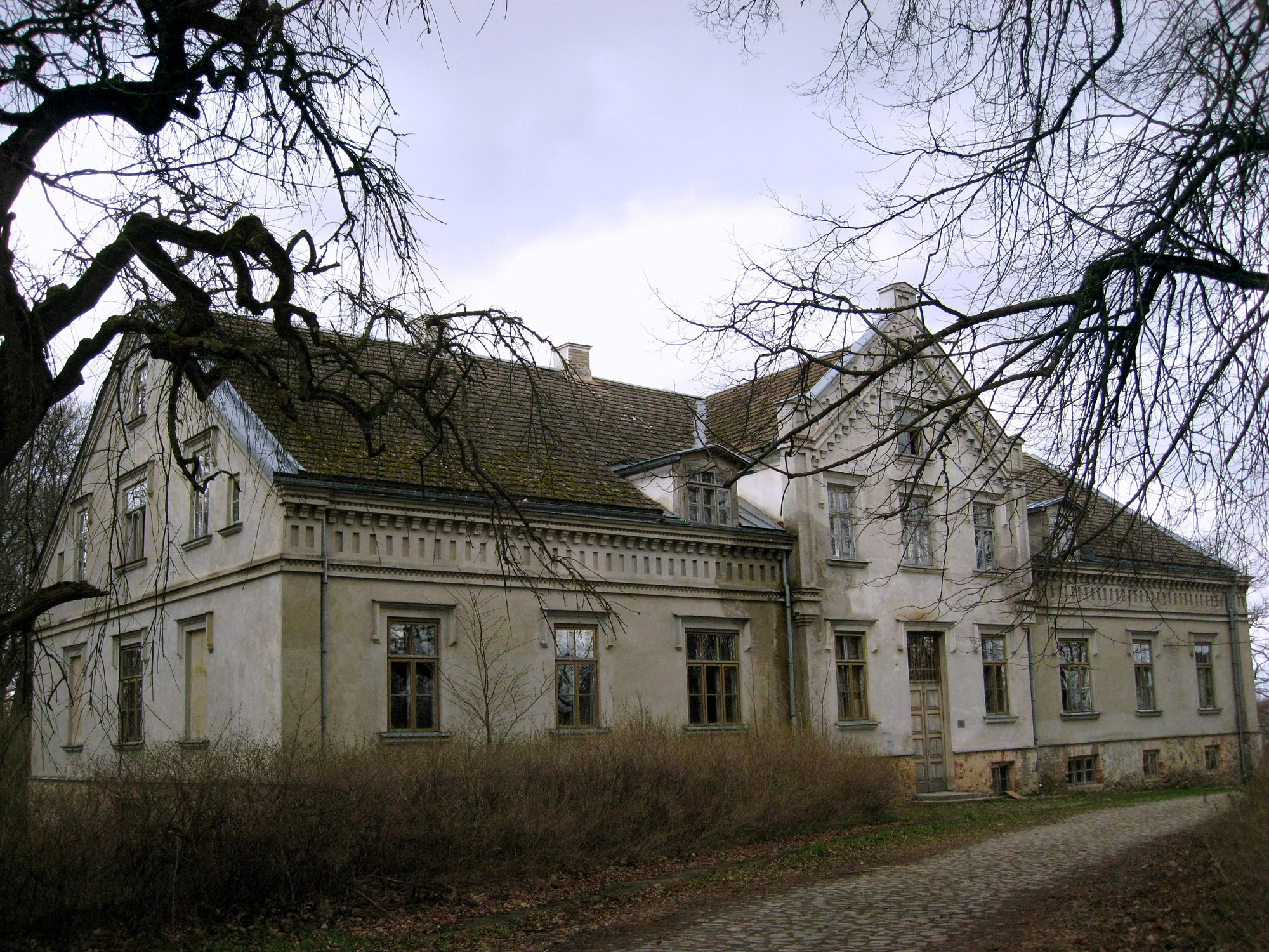 Saßmacken Manor, LatviaLatviešu: Sasmakas muižas pils, Ārlavas pagasts